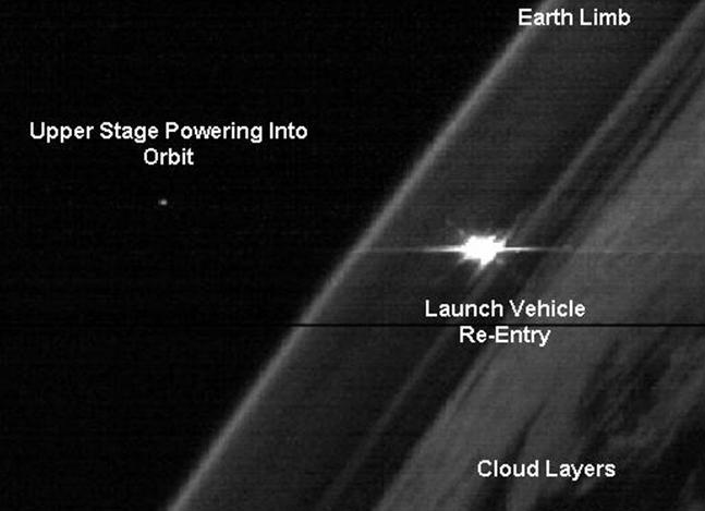 Space-Launch, Orbital Insertion Engine and Launcher Re-Entry detected by SBIRS HEO-1.